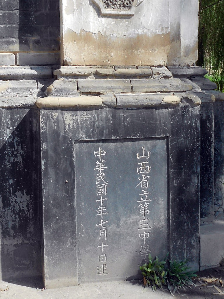 The Shanxi Third Middle School, Auditorium, Plinth